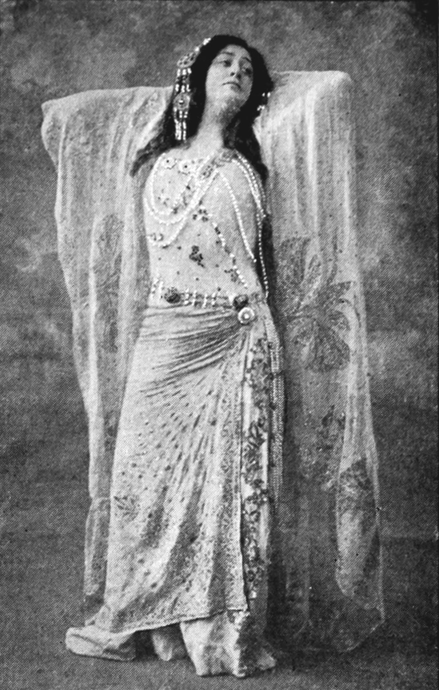 Wagner - Parsifal - Margaret Matzenauer as Kundry Title: The Victrola book of the opera : stories of one hundred and twenty operas with seven-hundred illustrations and descriptions of twelve-hundred Victor opera records Year: 1917 (1910s) Authors: Victor Talking Machine Company Rous, Samuel Holland Subjects: Operas Publisher: Camden, N.J. : Victor Talking Machine Co. Text Appearing Before Image: ' Text Appearing After Image: MATZENAUER AS KUNDRY Klingsor (poising a lance) : Halt there! Ill ban thee with befitting gear:The Fool shall perish by his Masters spear! He flings the spear at Parsifal, but an invisible force stopsit and it remains floating over his head. Parsifal grasps it withhis hand and brandishes it with a gesture of exalted rapture,making the sign of the Cross with it. Parsifal: This sign I make, and ban thy cursed magic:As the wound shall be closed,Which thou with this once clovest,—To wrack and to ruinFalls thy unreal display! PARSIFAL CAPTURING THESACRED SPEAR As with an earthquakethe Castle falls to ruins, thegarden withers up to a desert,the damsels become shriveledflowers strewn around on theground. Kundry sinks down at Par-sifals feet, while the hero, gaz-ing at her with compassion,and referring to the Holy Grail,where true salvation can alonebe found, cries: Parsifal: Thou knowst—Where only we shall meetagain! (He disappears, and thecurtain falls quickly.)